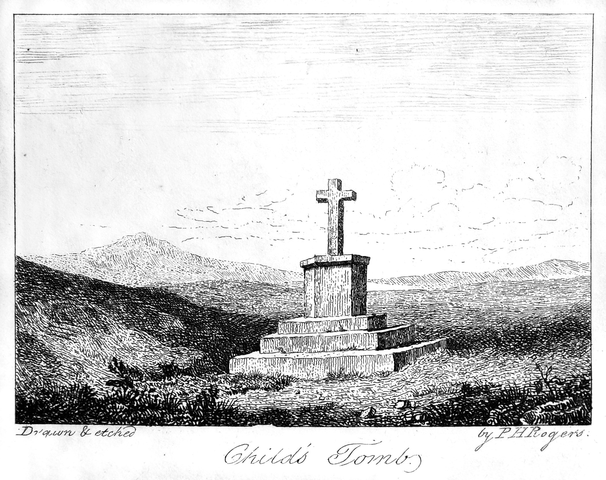 An engraving of Childe's Tomb on Dartmoor, Devon, England.